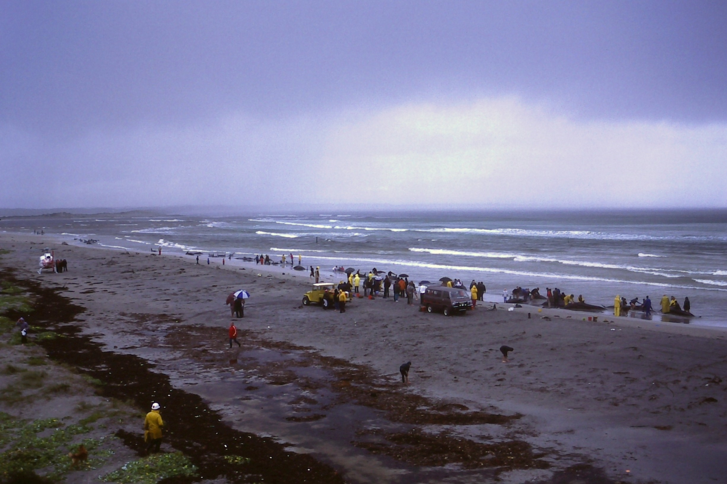 Overview of Town Beach, Augusta, in Flinders Bay, Western Australia, showing the pod of false killer whales that became stranded there at the end of July 1986. The TVW 7 Perth helicopter can be seen landed on the beach at left. Photo taken on the first morning of the stranding.Kodachrome slide converted by Kaiser Baas Photo Maker Pro into a digital image.